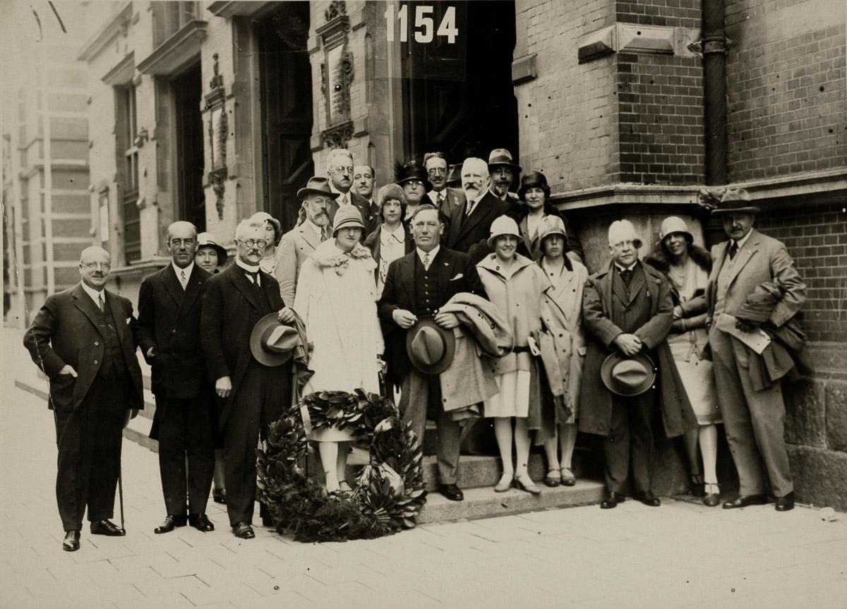 Celebration in honour of Jan Wils, architect of the Olympic Stadium in Amsterdam, at the Stedelijk Museum Amsterdam. From left to right: unknown man, Pieter Scharroo, unknown woman, Willem Kromhout, ...